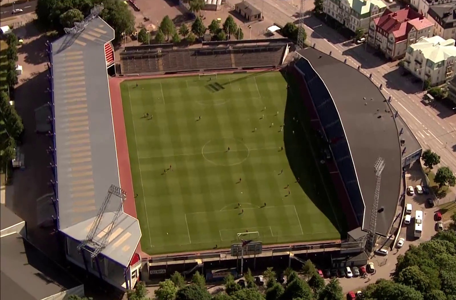 Aerial view of the Olympia football stadium in Helsingborg.